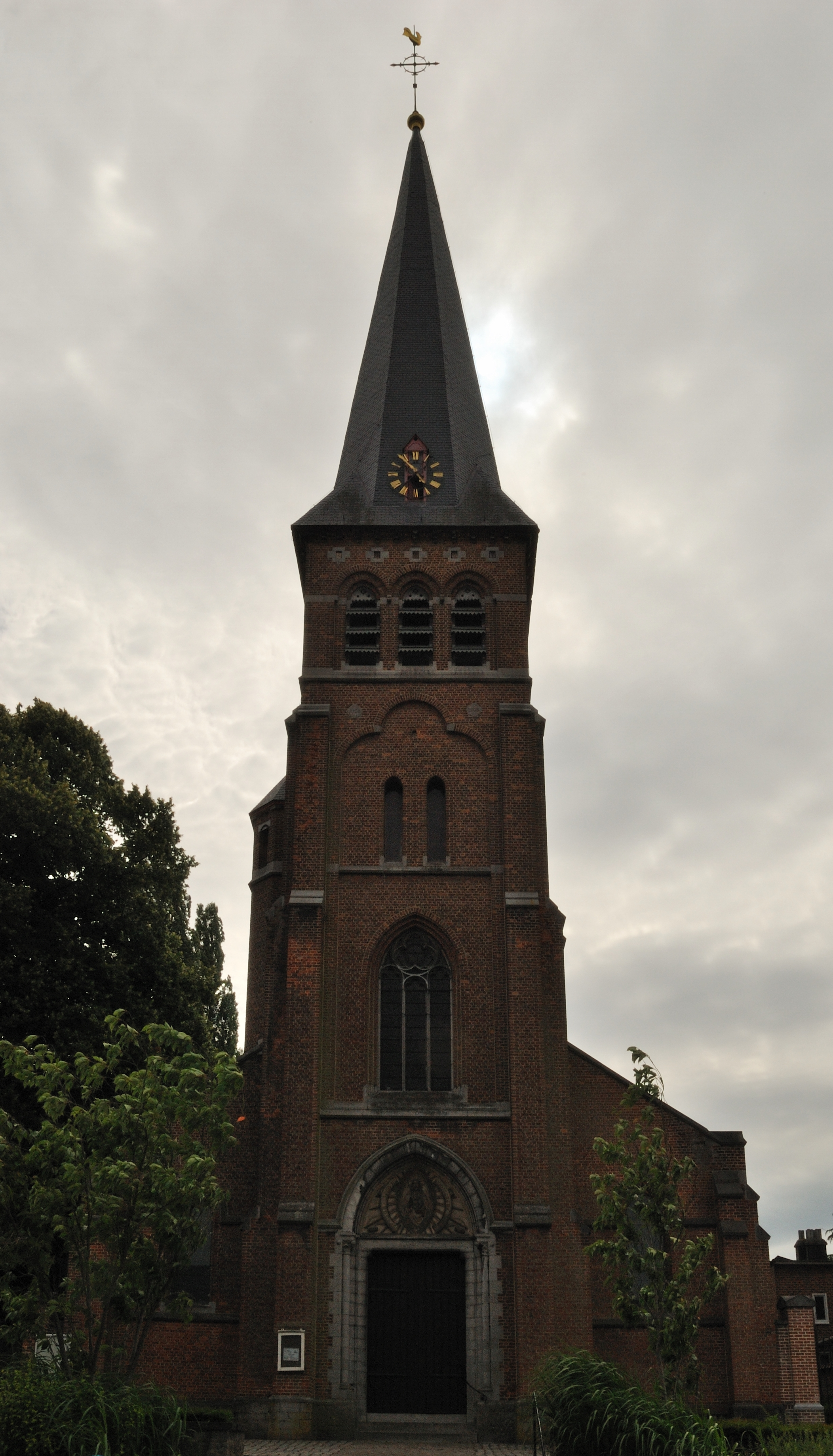 Front view of the church of the Sacred Heart at the village of Breedhout, commune of Halle, province of Flemish Brabant, Belgium. Nikon D60 f=20mm f/25 at 1/200s ISO 200. Processed using Nikon ViewNX 1.5.2 and Gimp 2.6.6.